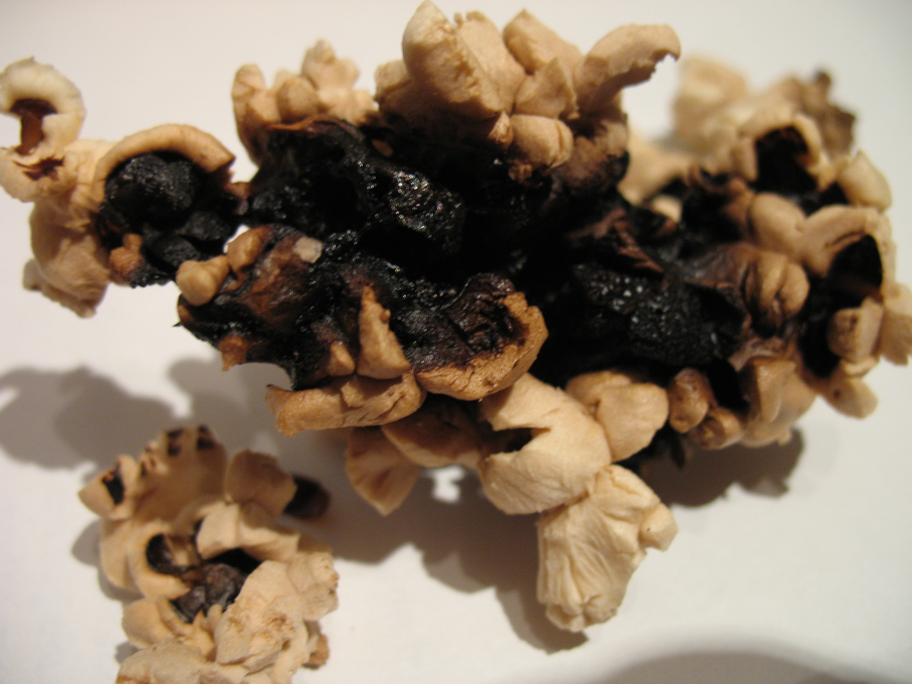 Popcorn which lingered too long in the microwave